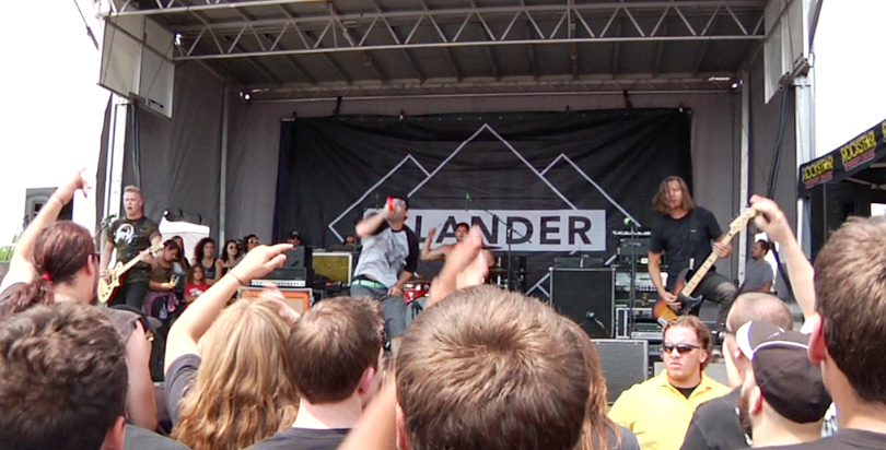 Shot with my iPhone. Cropped in Photoshop